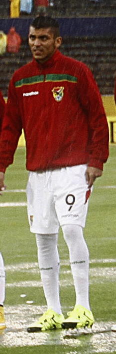 Yasmani Duk